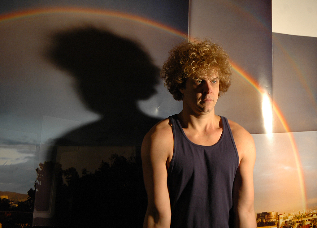 Casey Spooner being photographed in the back of FS Studios during a salon party